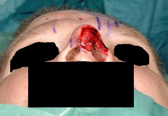 The defect after adjustement to the aesthetical subunits.